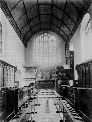 The Old Chapel (now the War Memorial Library), Queens' College, Cambridge